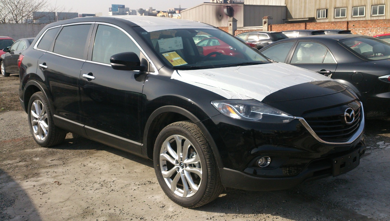 Mazda CX-9 TB facelift II photographed in Shanghai, China.